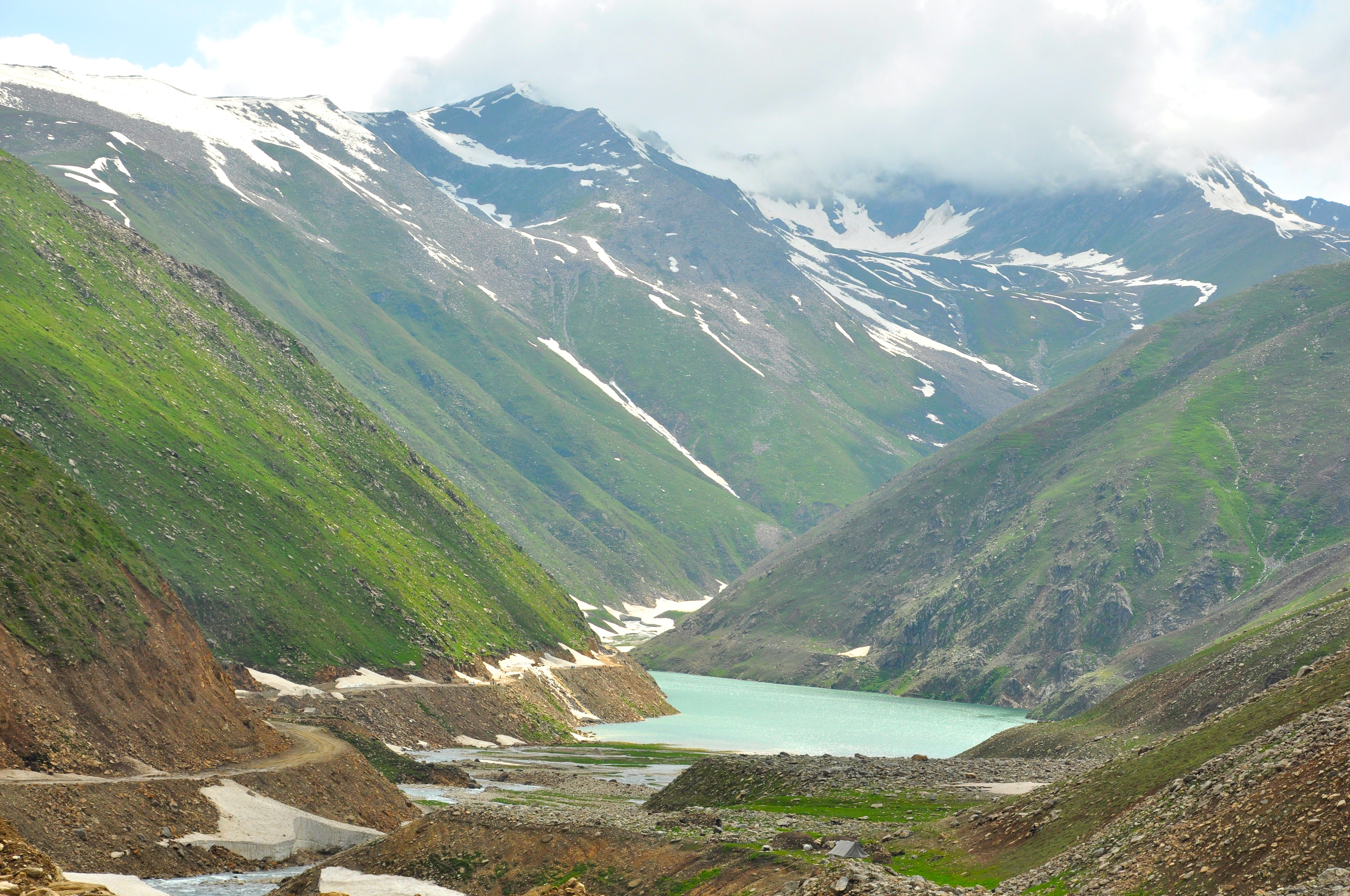 lulusar Lake, Naran, KPK, Pakistan